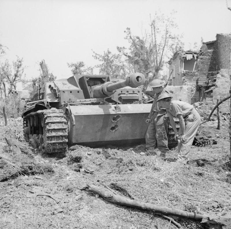 British troops examine a knocked-out German StuG III assault gun near Cassino, Italy, 18 May 1944. Troops examine a knocked-out German StuG III assault gun near Cassino, 18 May 1944. Two 75mm AP rounds from a Sherman tank have neatly penetrated its front armour.